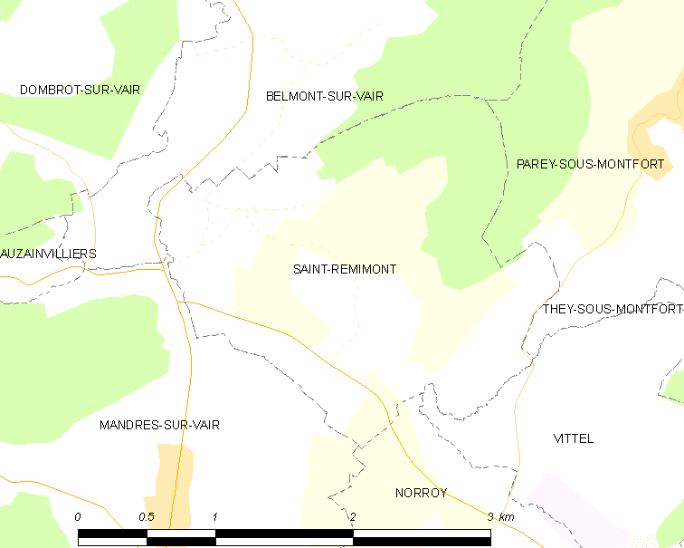 Map of French municipality Saint-Remimont